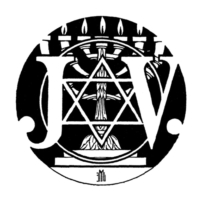 signet of the Juedischer Verlag, designed by E. M. Lilien, 1902